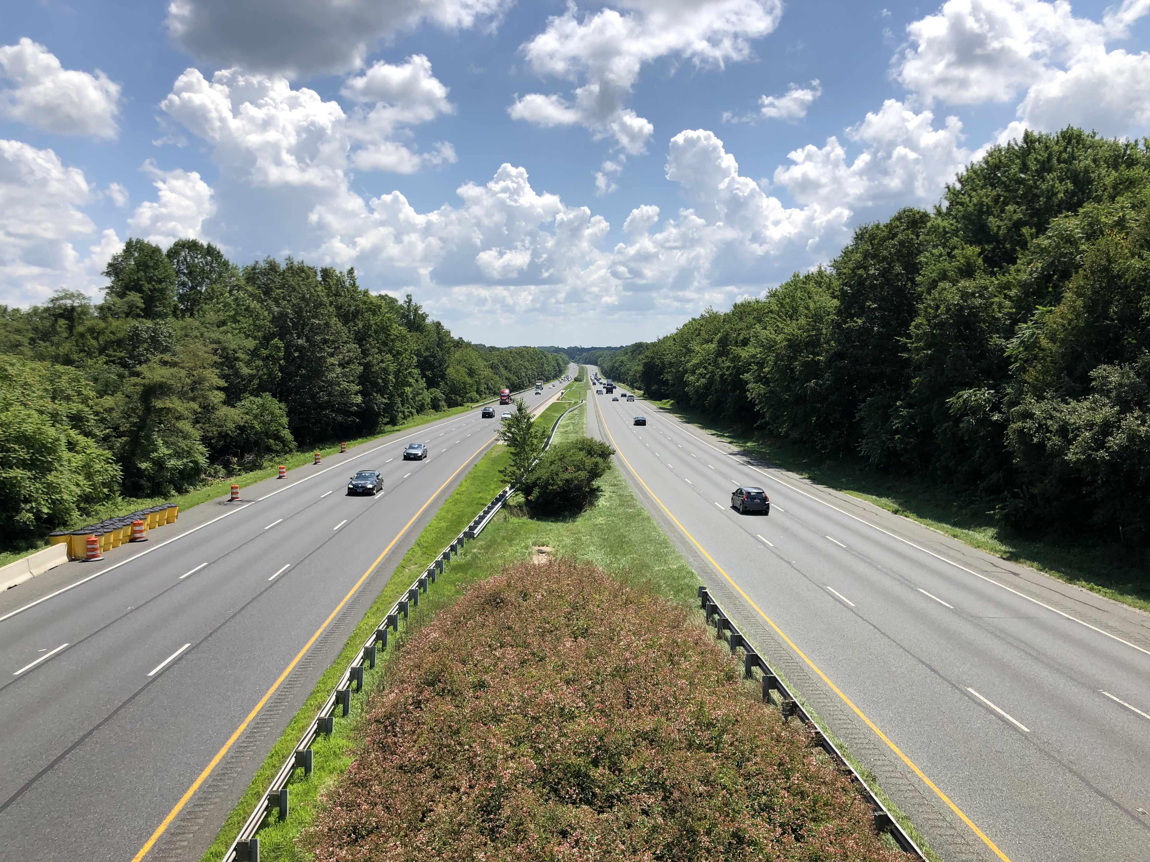 View east along Interstate 70 and U.S. Route 40 (Baltimore National Pike) from the overpass for West Watersville Road in Watersville, Howard County, Maryland